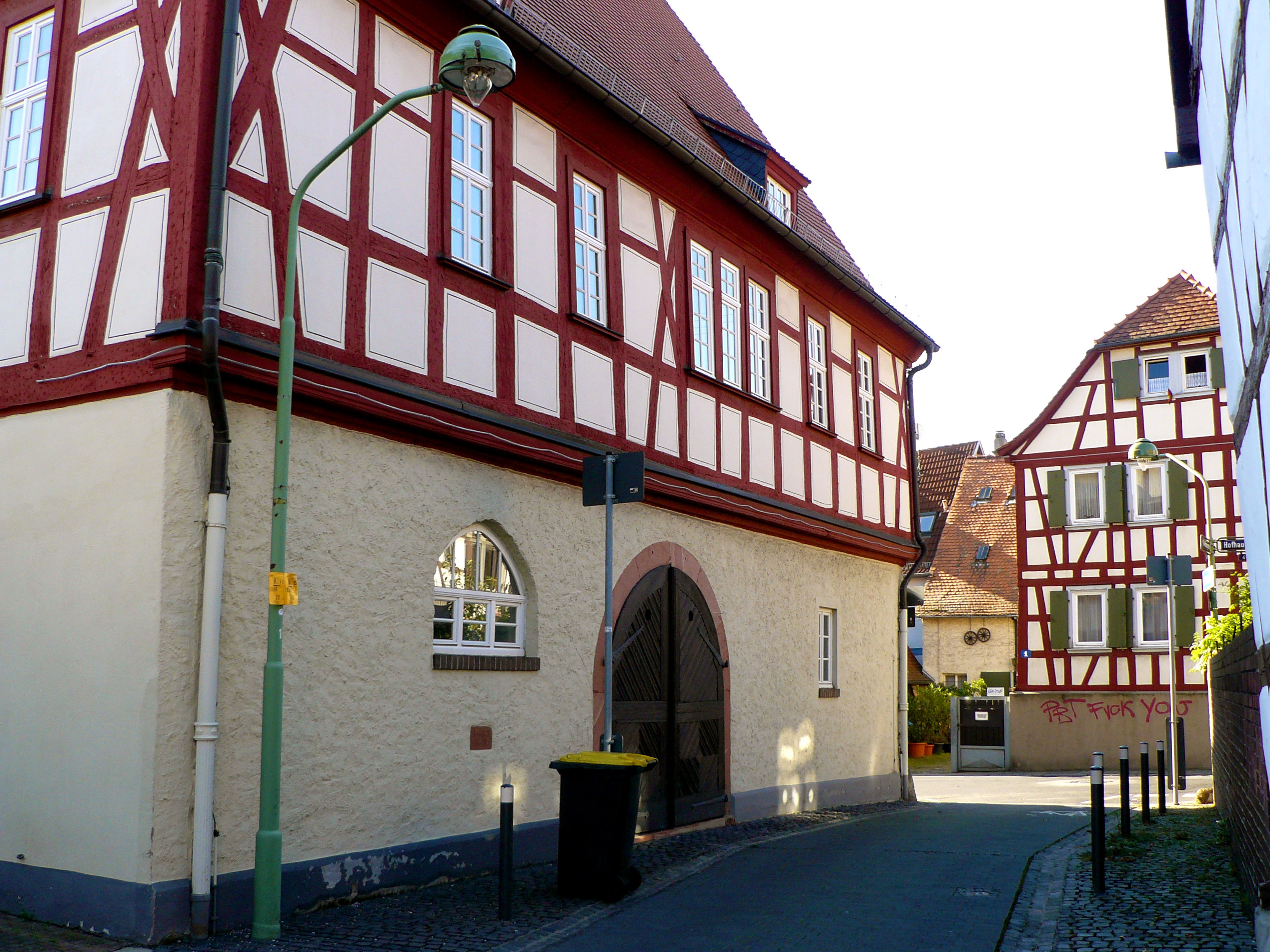 Old side entrance of former town hall in Seckbach for firefighter equipment used in 19th century, Frankfurt, Hesse, Germany